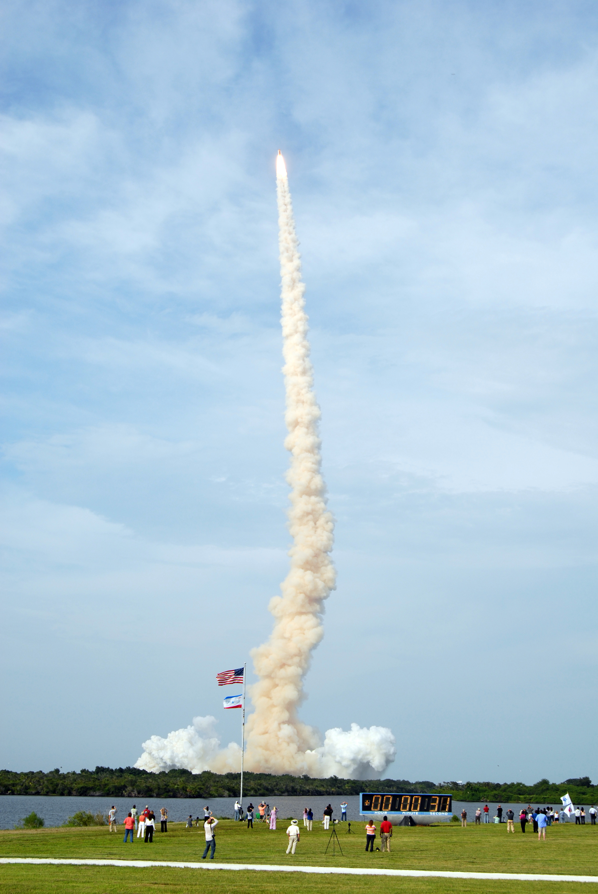 Space shuttle Endeavour leaves a column of smoke as it rises from Launch Pad 39A at NASA's Kennedy Space Center in Florida. Today was the sixth launch attempt for the STS-127 mission. The launch was scrubbed on June 13 and June 17 when a hydrogen gas leak occurred during tanking due to a misaligned Ground Umbilical Carrier Plate. The mission was postponed July 11, 12 and 13 due to weather conditions near the Shuttle Landing Facility at Kennedy that violated rules for launching, and lightning issues. Endeavour will deliver the Japanese Experiment Module's Exposed Facility and the Experiment Logistics Module-Exposed Section in the final of three flights dedicated to the assembly of the Japan Aerospace Exploration Agency's Kibo laboratory complex on the International Space Station.